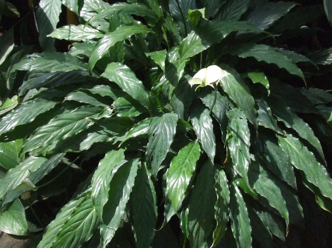 Spathiphyllum_wallisii